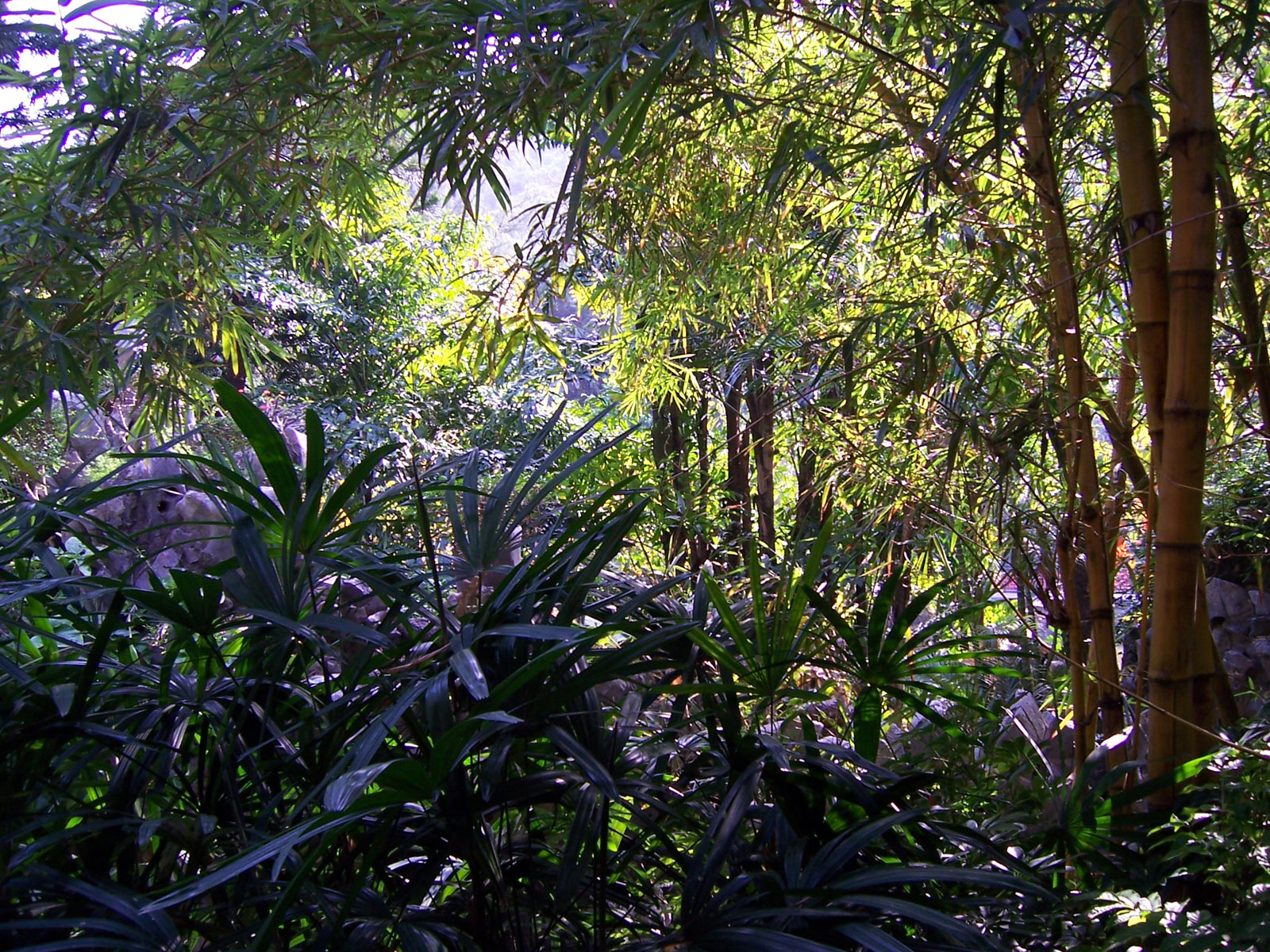 Bamboo at Ocean Park, Hong Kong. Taken by Enoch Lau on 1 January 2006. As a courtesy, please let me know if you alter this image or this image description page. Original filename was 100_1080.JPG.